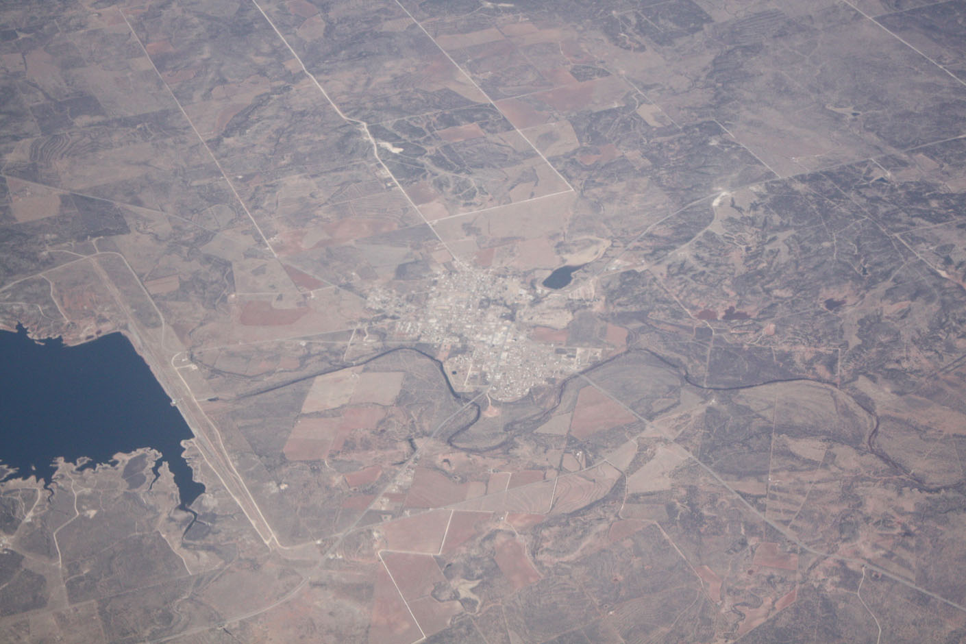 Oblique air photo of Robert Lee, Texas, facing northeast, 21 Jan 2009. E.V. Spence Reservoir is at left.